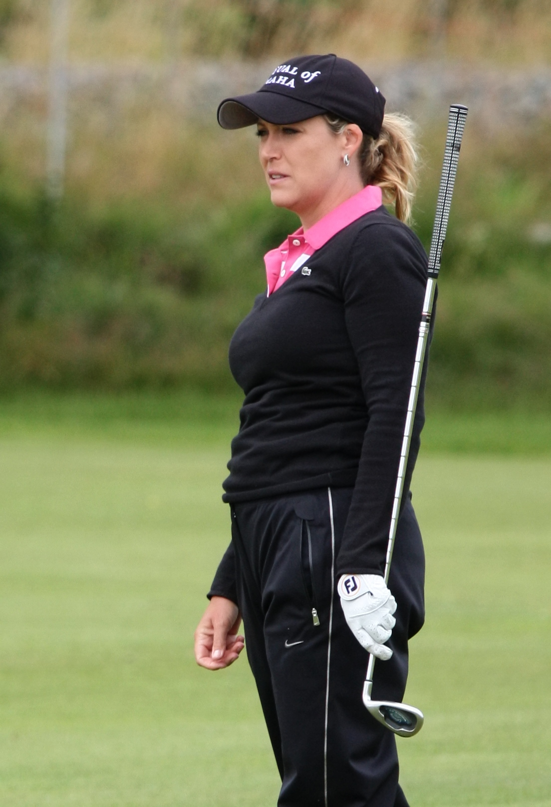 LYTHAM ST ANNES, UNITED KINGDOM - JULY 28: Cristie Kerr of the USA on the 2nd fairway during pro-am competition before 2009 Ricoh Women's British Open held at Royal Lytham & St Annes on July 28, 2009 in Lytham St Annes, England. (Photo by Wojciech Migda)